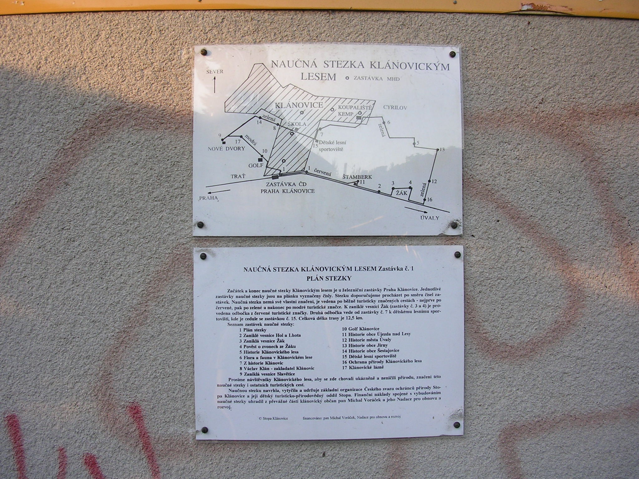 Klánovice, Prague, the Czech Republic. Description of educational trail in Klánovice forest.